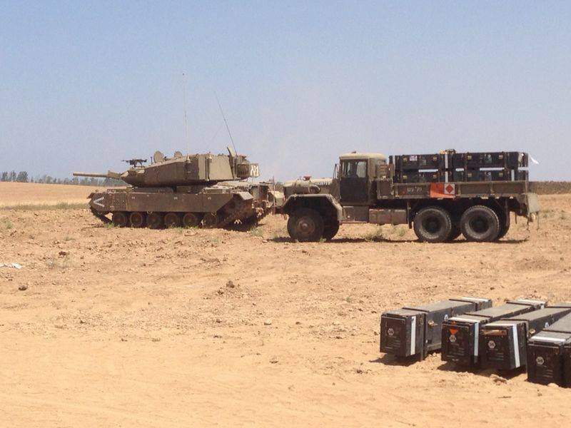 Pereh missile carrier with reload vehicle during the Gaza War.